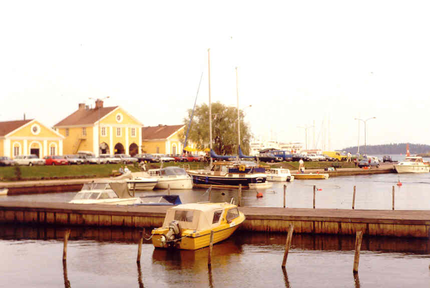 Dalsbruk in Dragsfjärd, Finland, the summer 1992. Photo by Harri Blomberg.